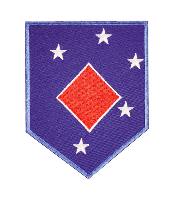 1st Marine Amphibious Corp insignia adopted in October of 1942